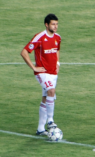 Tsvetan Genkov